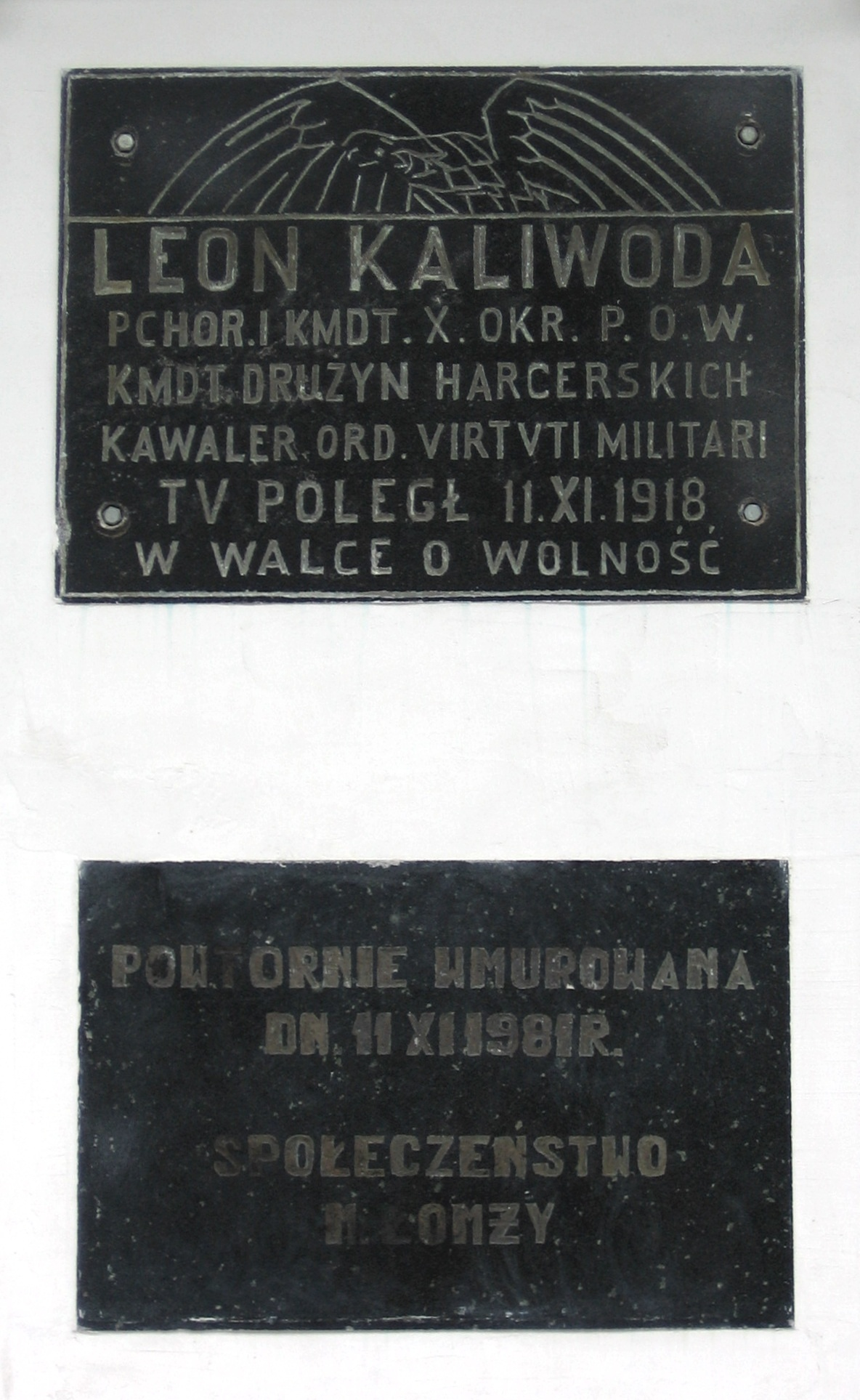 Commemorative plaque on the wall of Śledziewski Family tenement house in Łomża Annotation: LEON KALIWODA. Officer cadet & Commander X. District of Polish Military Organisation; Commander of scout troops; Officer of the Order of the Virtuti Militari Here died on the 11th of November 1918 in fight for freedom